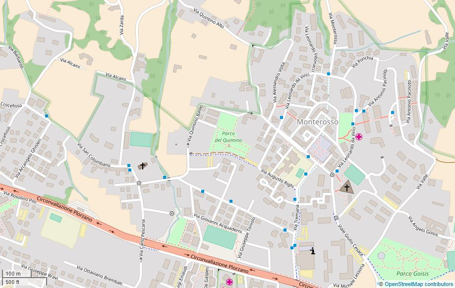 Bergamo, Monterosso e San Colombano This map may be incomplete, and may contain errors. Don't rely solely on it for navigation.